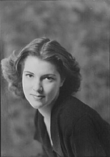 Arnold Genthe (1869-1942)/LOC agc.7a10614. Diana Barrymore, 1941